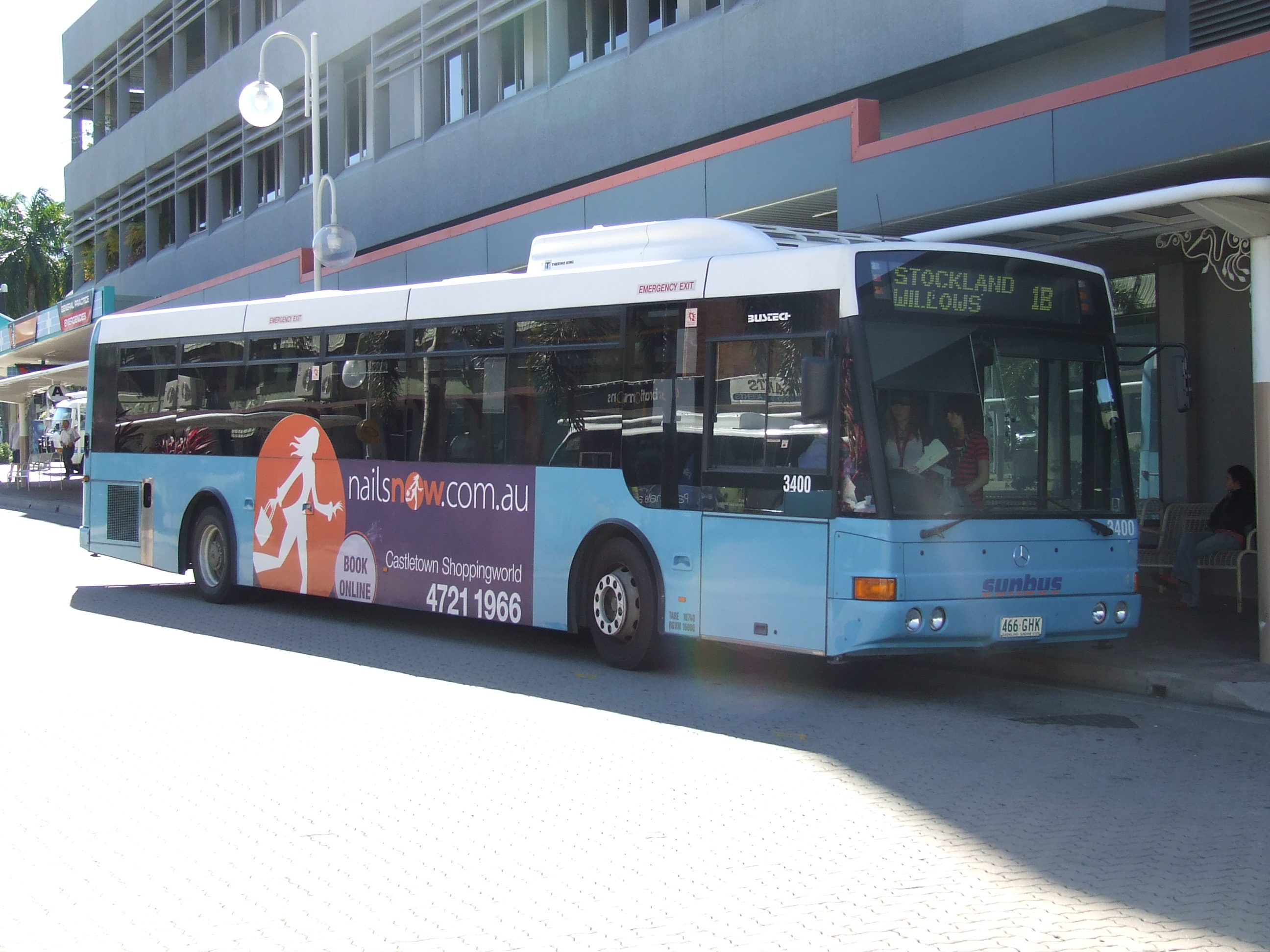 Bustech bodied Mercedes-Benz O 405 NH bus (#3400, 466 GHK, built 2001) of Sunbus Townsville. Category:Townsville, Queensland, Australia.